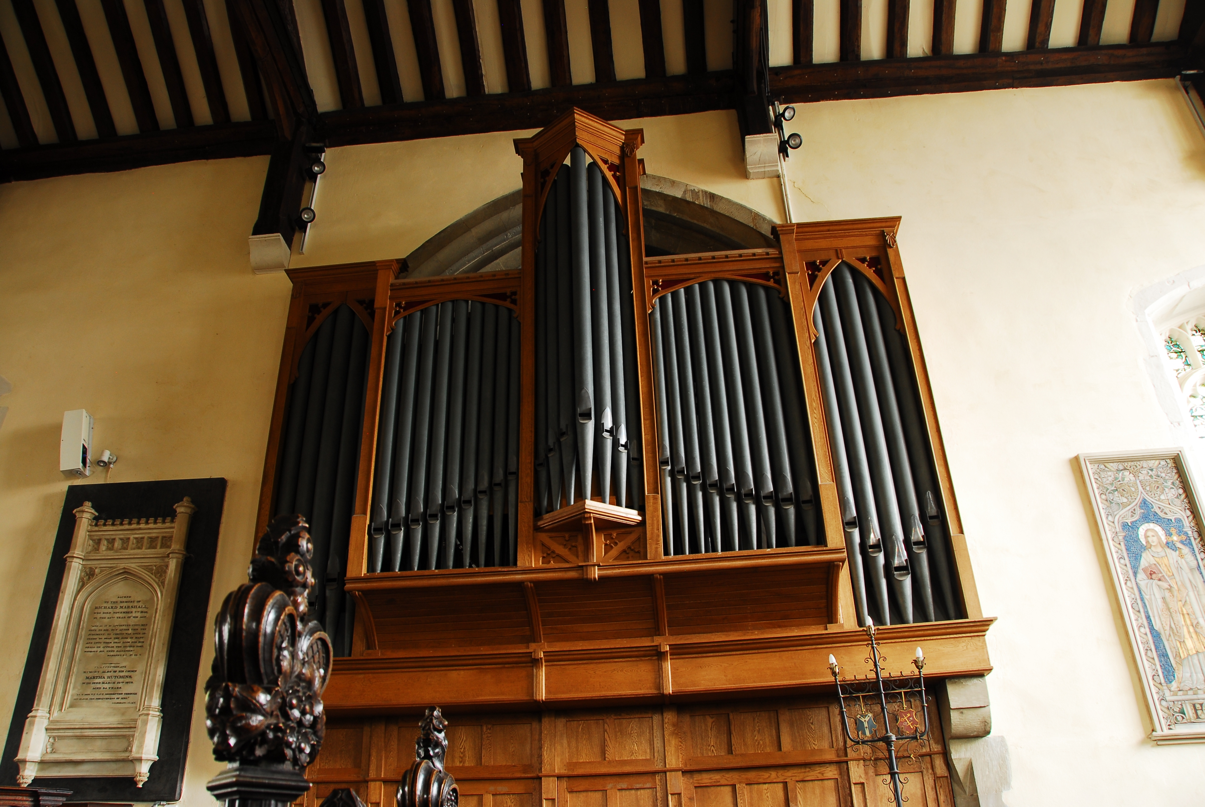 Organ in Church of St Lawrence, Alton